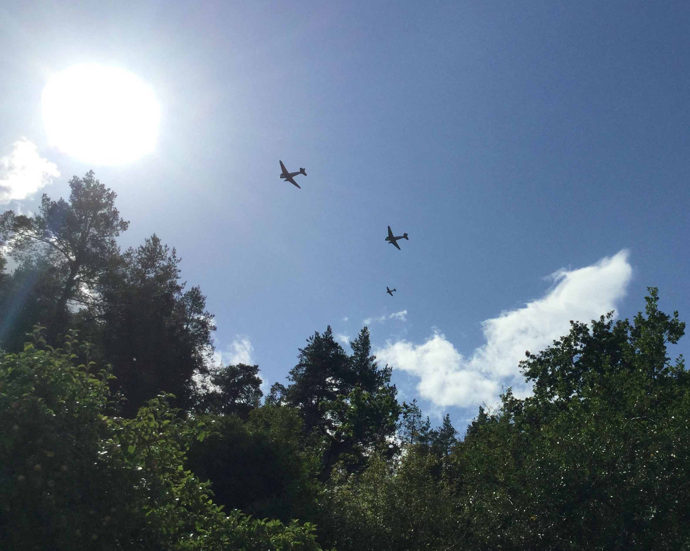 DC-3's Daisy (of the Swedish Flygande Veteraner), Prinses Amalia (of the Dutch Dakota Association) and a North American Texan (probably Janne Andersson's) above Stockholm, Sweden, August 20, 2017